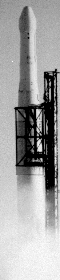 Launch of the Thor Able-Star rocket with satellites Transit O-2 and Transit-5E5.